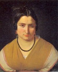 The Albian Girl, also known as The Italian Girl, painting by Danish painter Albert Küchler of Christian Danish poet Winther's local girlfriend in Rome in 1831